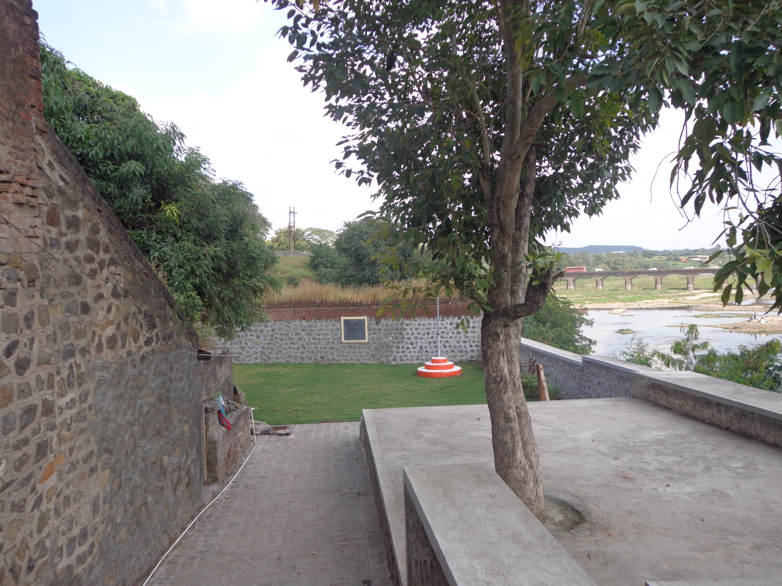 Rajguruwada in present, rajgurunagar